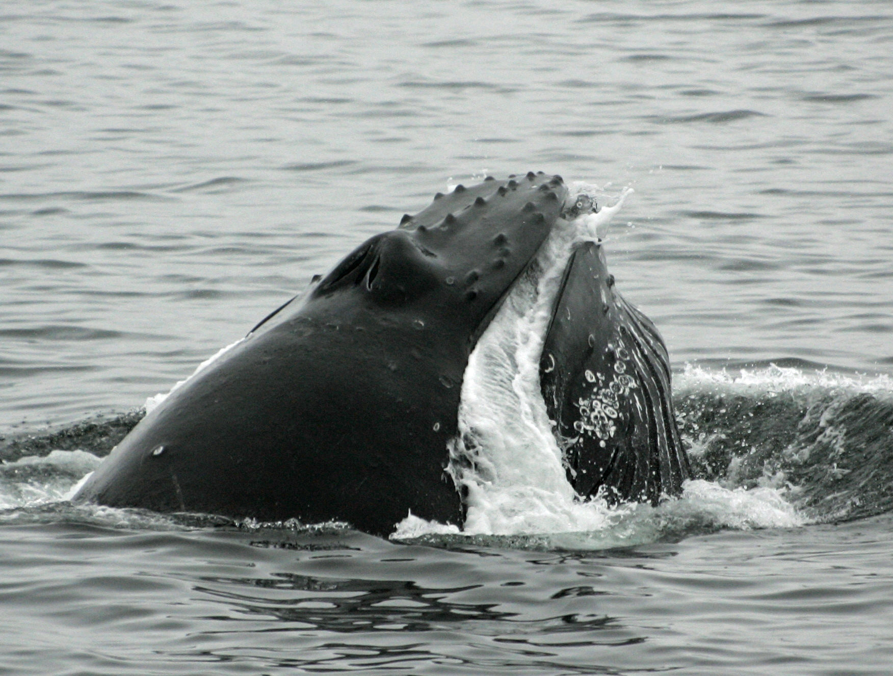 Humpback whale (Megaptera novaeangliae) straining water through its baleen after lunging. The original NOAA image has been modified by adjusting brightness and contrast.